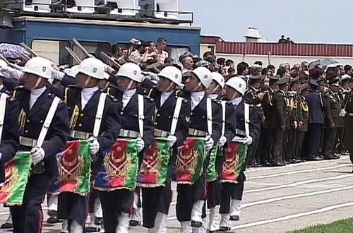 Picture take by mobile